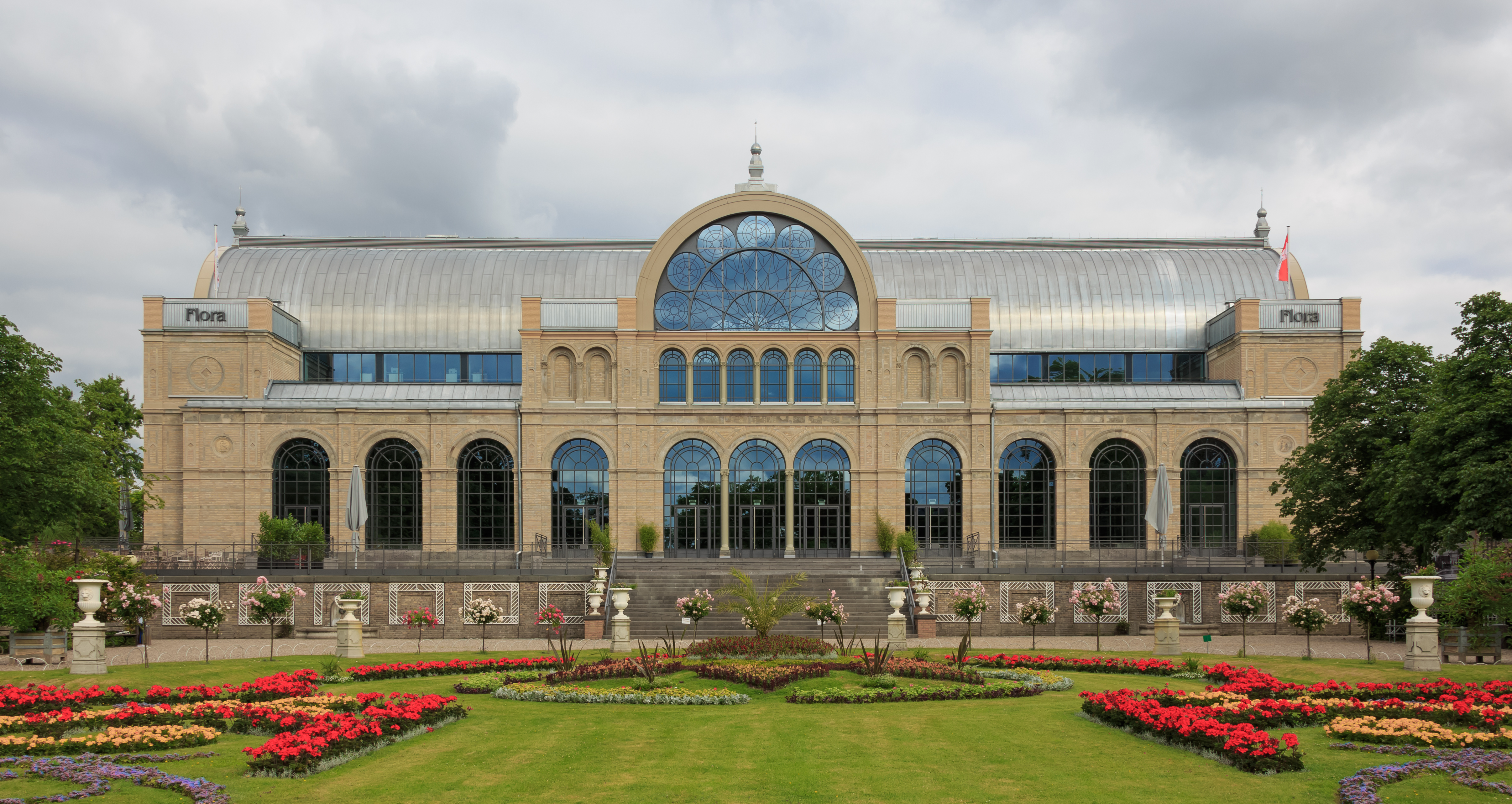 Cologne, Germany: "Flora Köln" after general refurbishment